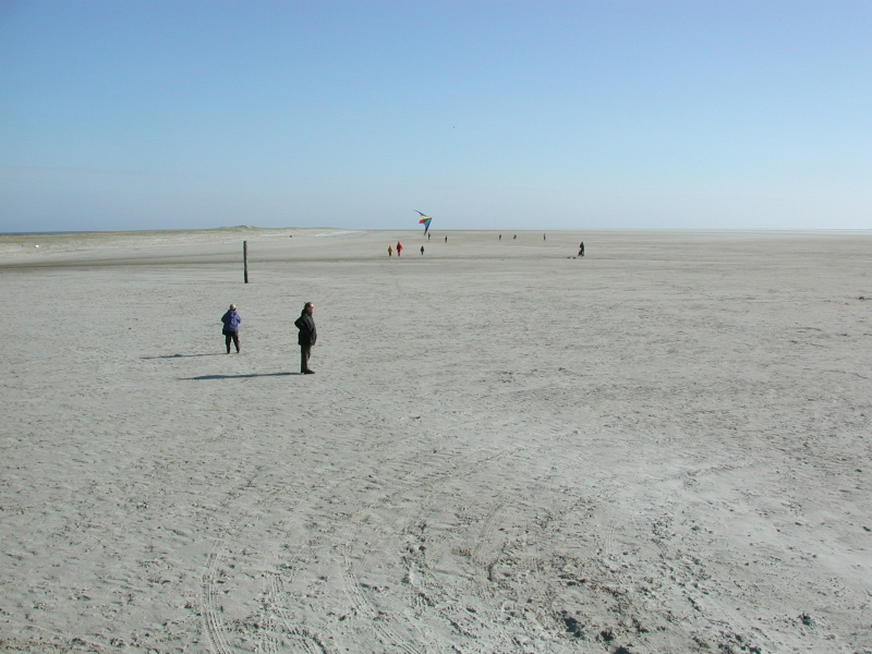 Sankt Peter-Ording, beach, Germany